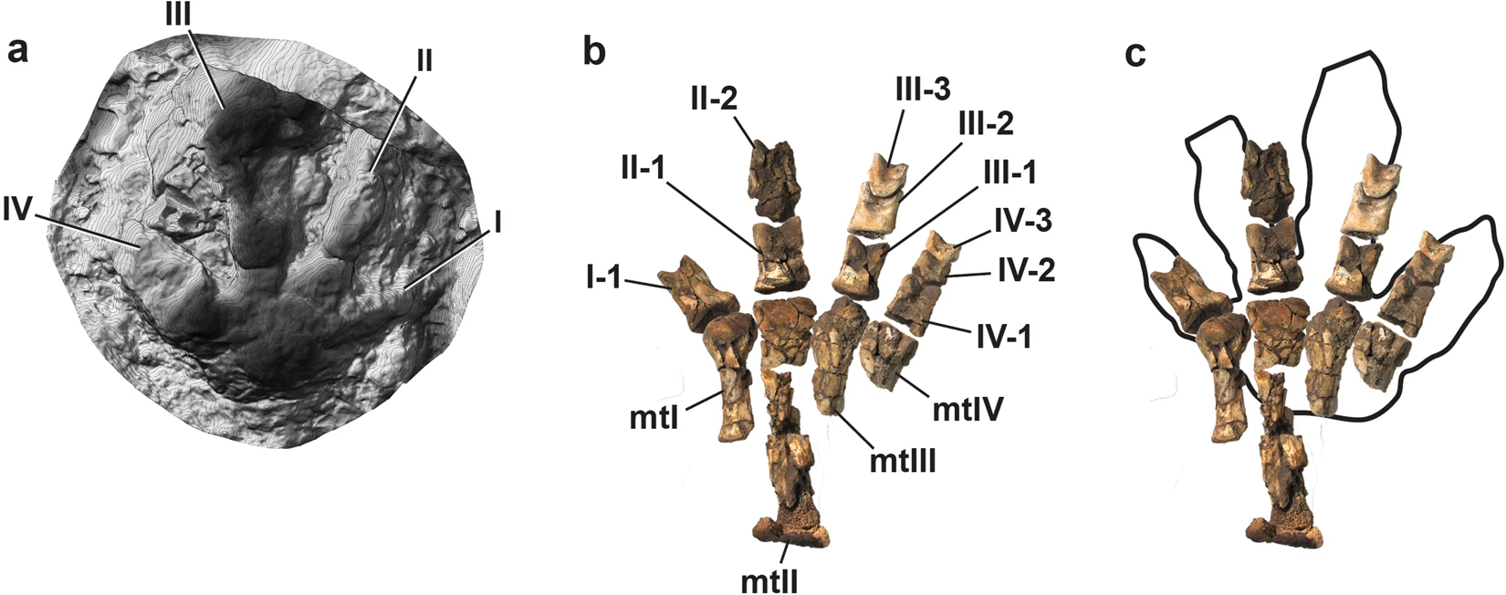 Comparison of a digital map of a therizinosaurid track (DMNH 2010-07-01) (a) from study area with the articulated foot of the therizinosaurid Erlikosaurus andrewsi (b). The similarities in digit proportions are clear in (c), an overlay of illustration b on a line drawing of illustration a. Because the track shown in a is preserved in raised relief, the line drawing has been inverted to correspond to the order of digits if preserved in negative relief.